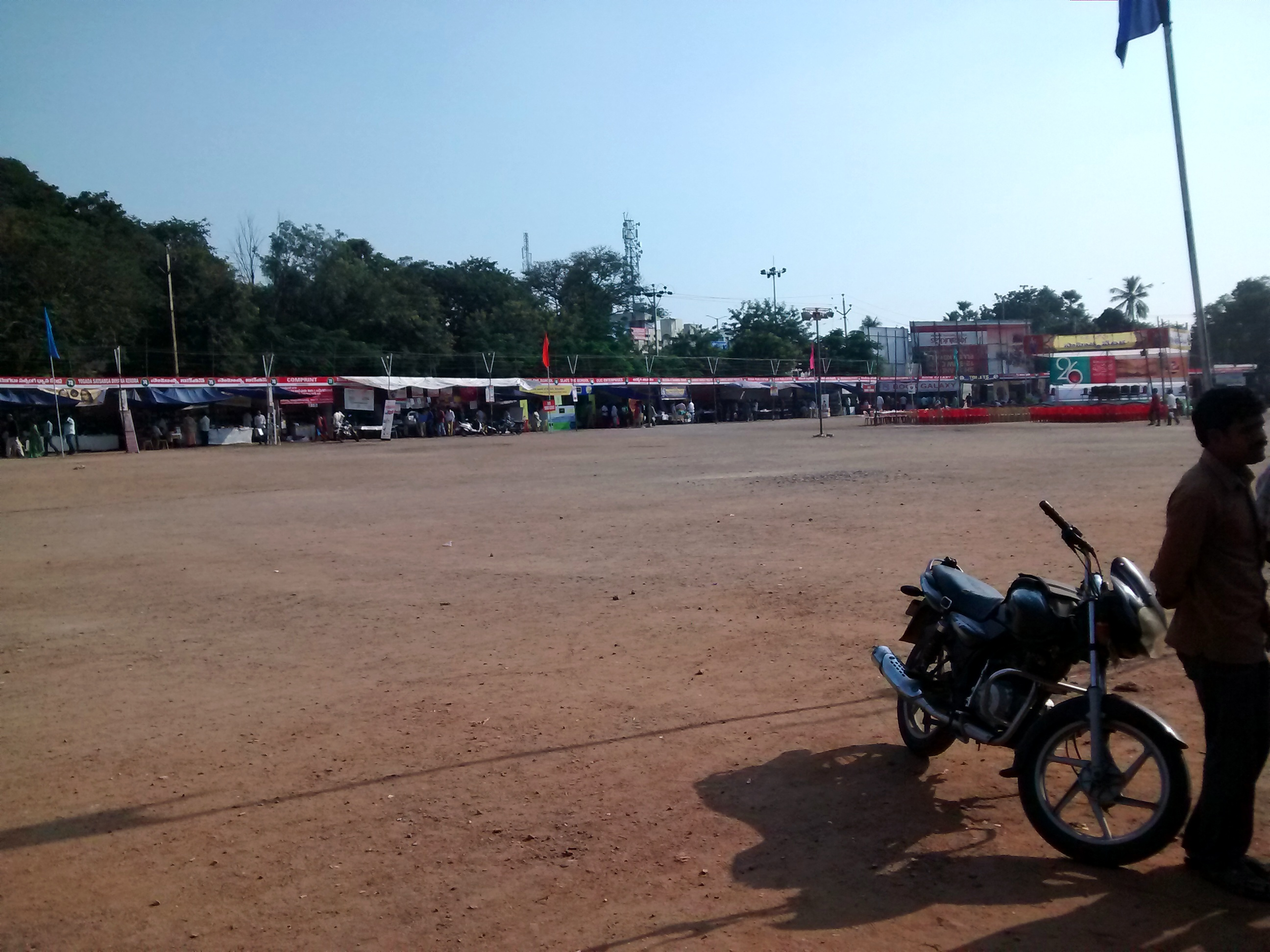 Vijayawada PWD Grounds